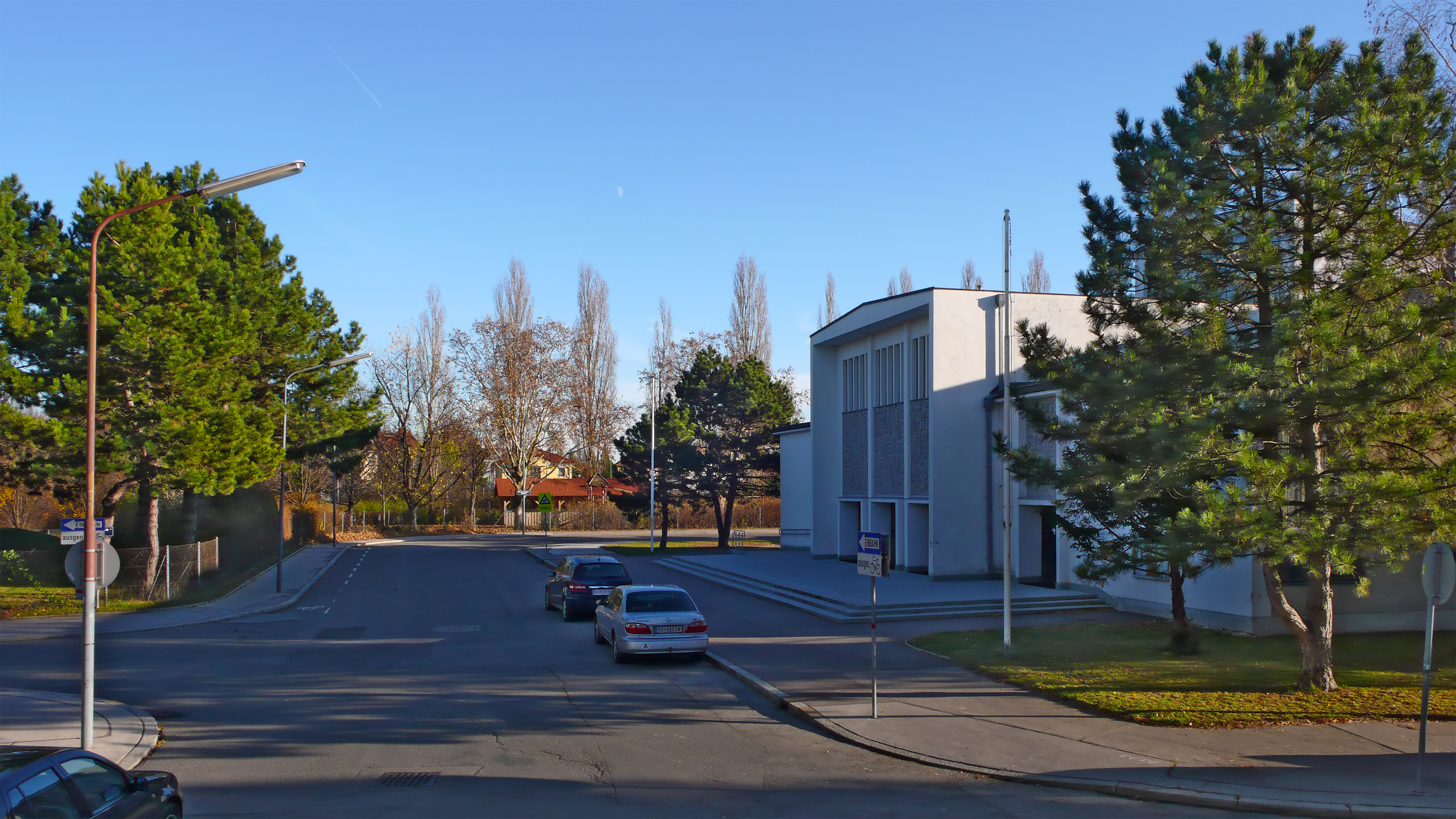 Edmund-Hawranek-Platz in Vienna Floridsdorf